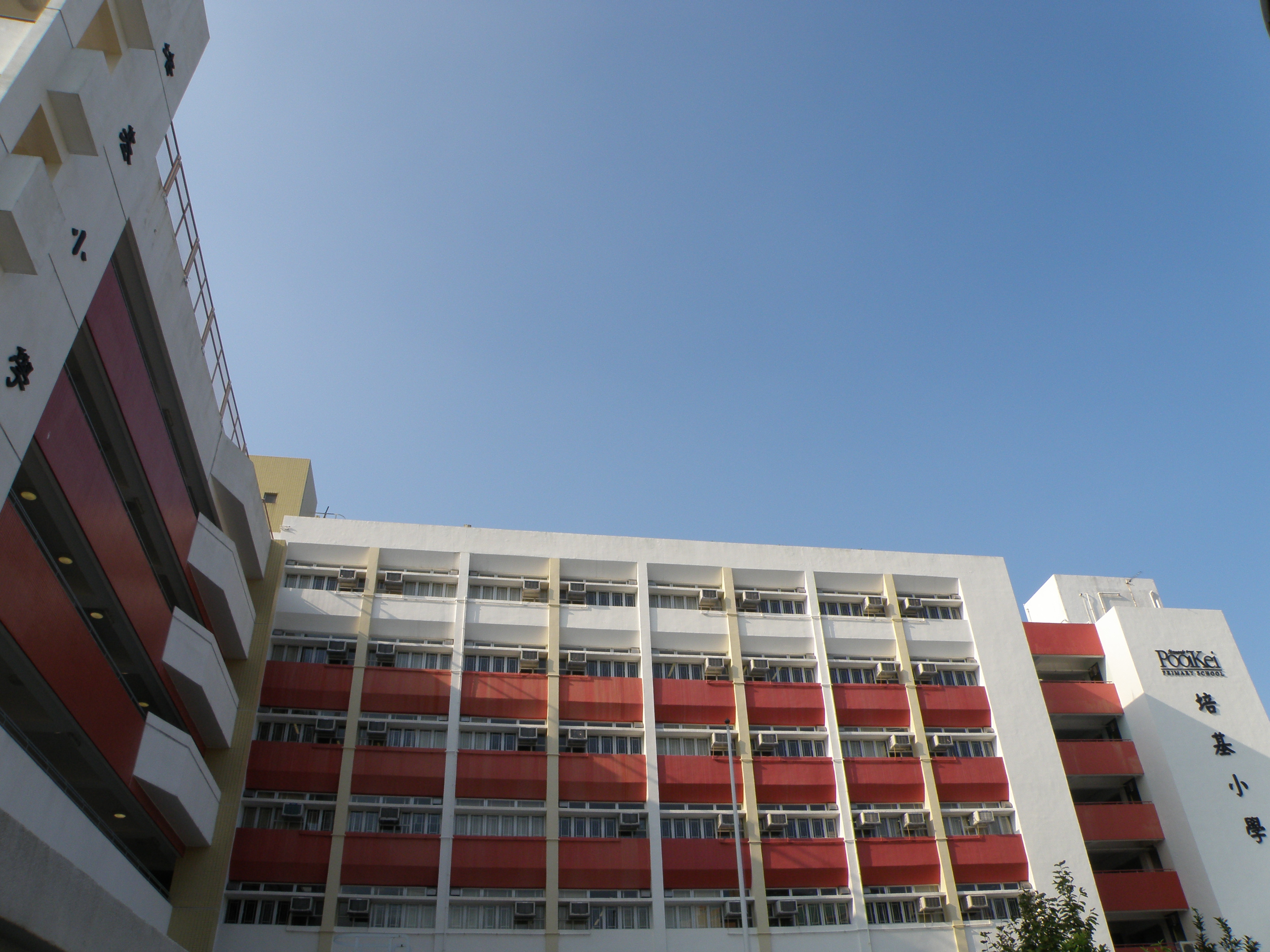 Stewards Pooi Kei Primary School in Fo Tan, Hong Kong.